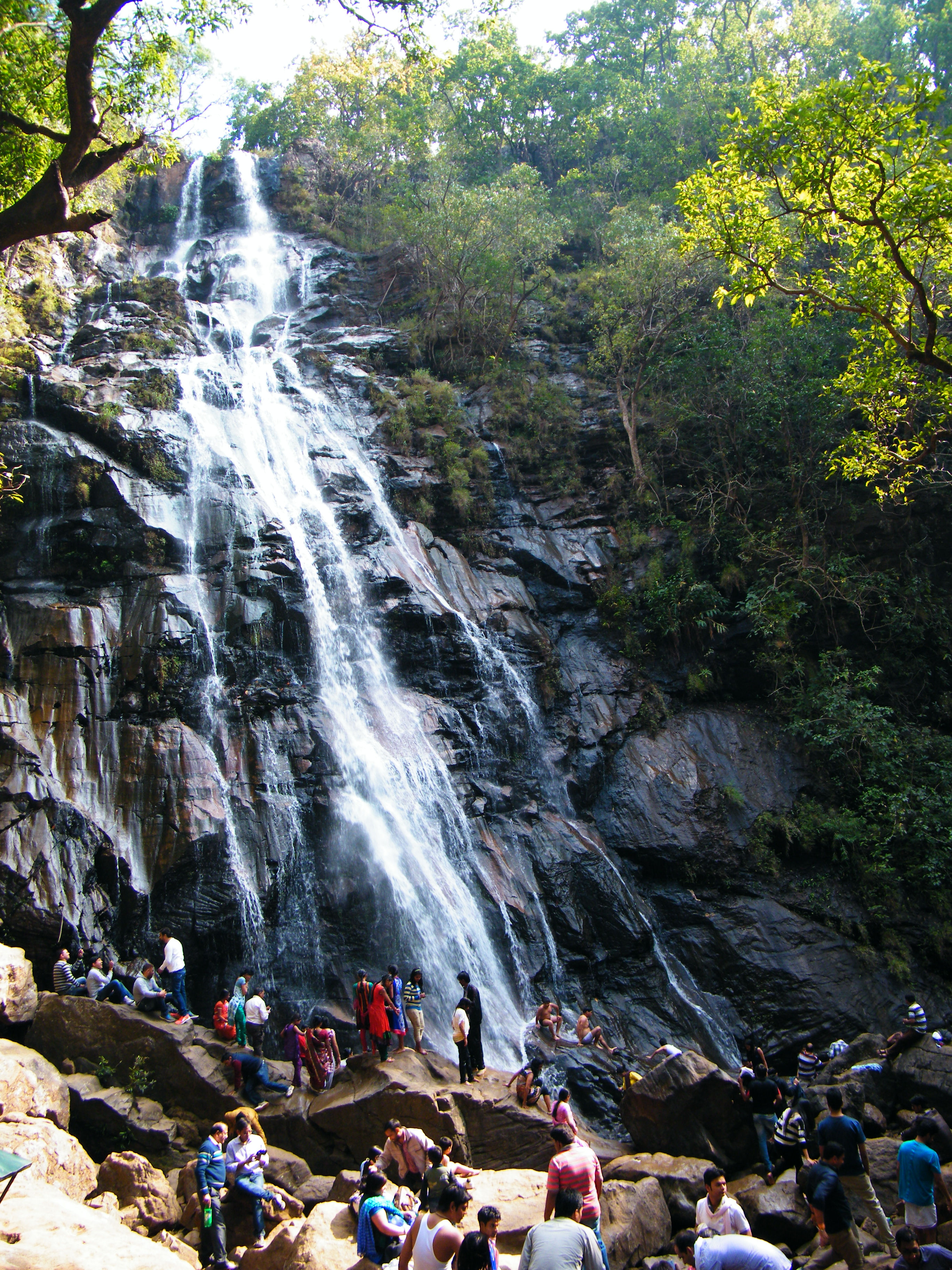 B-Fall in Pachmarhi. It is a very popular tourist destination.